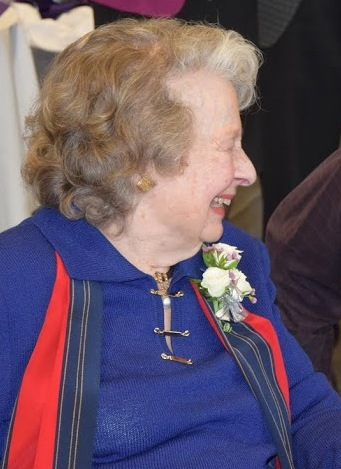 In life, we can all benefit from mentors. Dr. Irene Peden was my thesis adviser in graduate school. Learning from her and working in her research group had a major impact in my career. We stand on the shoulders of giants. I was happy to attend her 90th birthday party at University of Washington. Here she is giving me some more good advice as I start my next round of learning at University of Washington. Dr. Peden was the first woman faculty member hired at the UW College of Engineering. She pioneered the way for many women in engineering. Here is a video of Dr. Peden recruiting woman to science and engineering in the 1960s and there is a great interview about engineering that she gave in 2002 . PedenDSC_0191